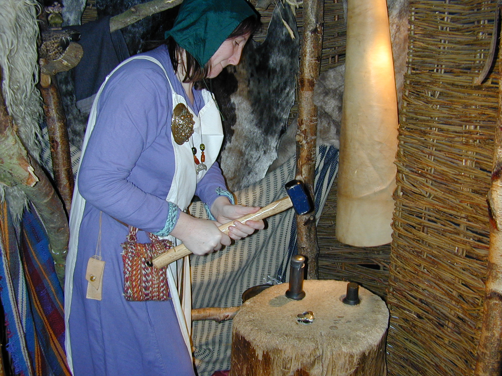 A modern representation of Viking coin making at the Jórvík Viking Centre in York, England. Taken 11 February 2004.